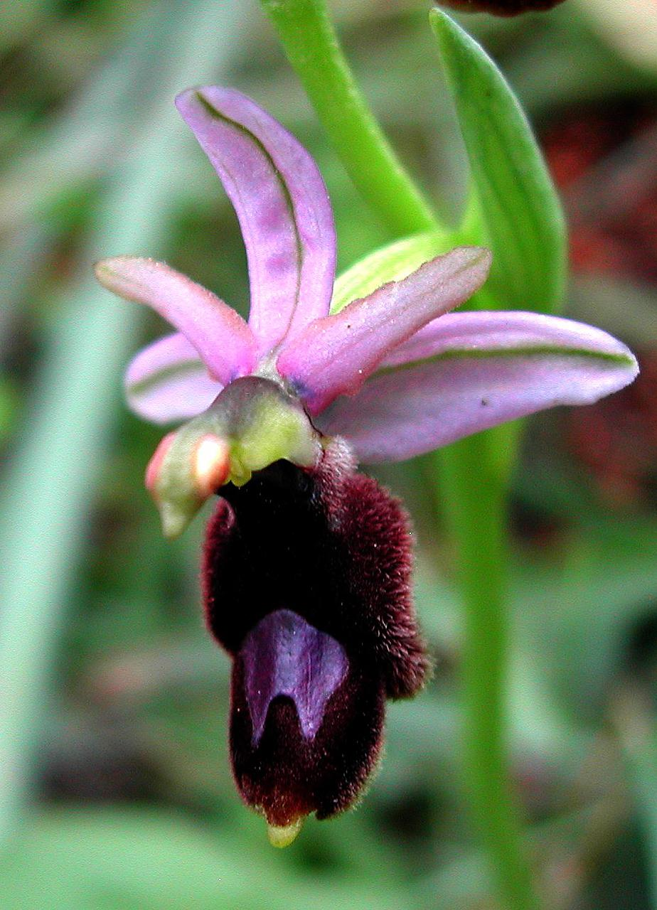 Ophrys balearica